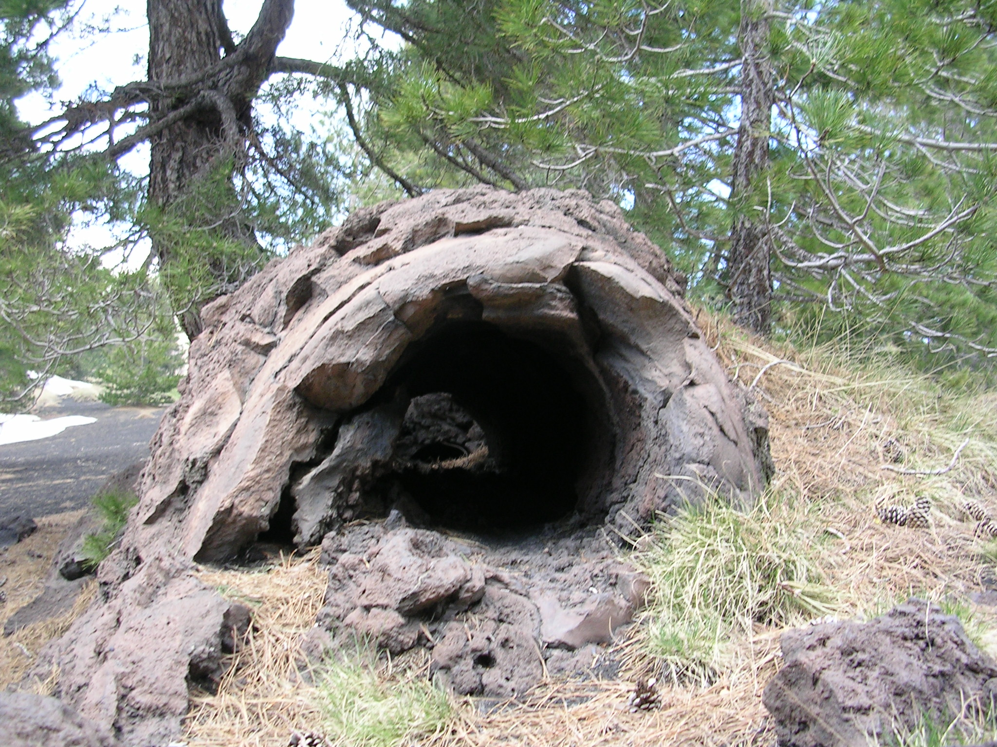 A pietracannone or petrified tree near Rifugio Monte Baracca. It is formed when lava chills around a tree trunk.